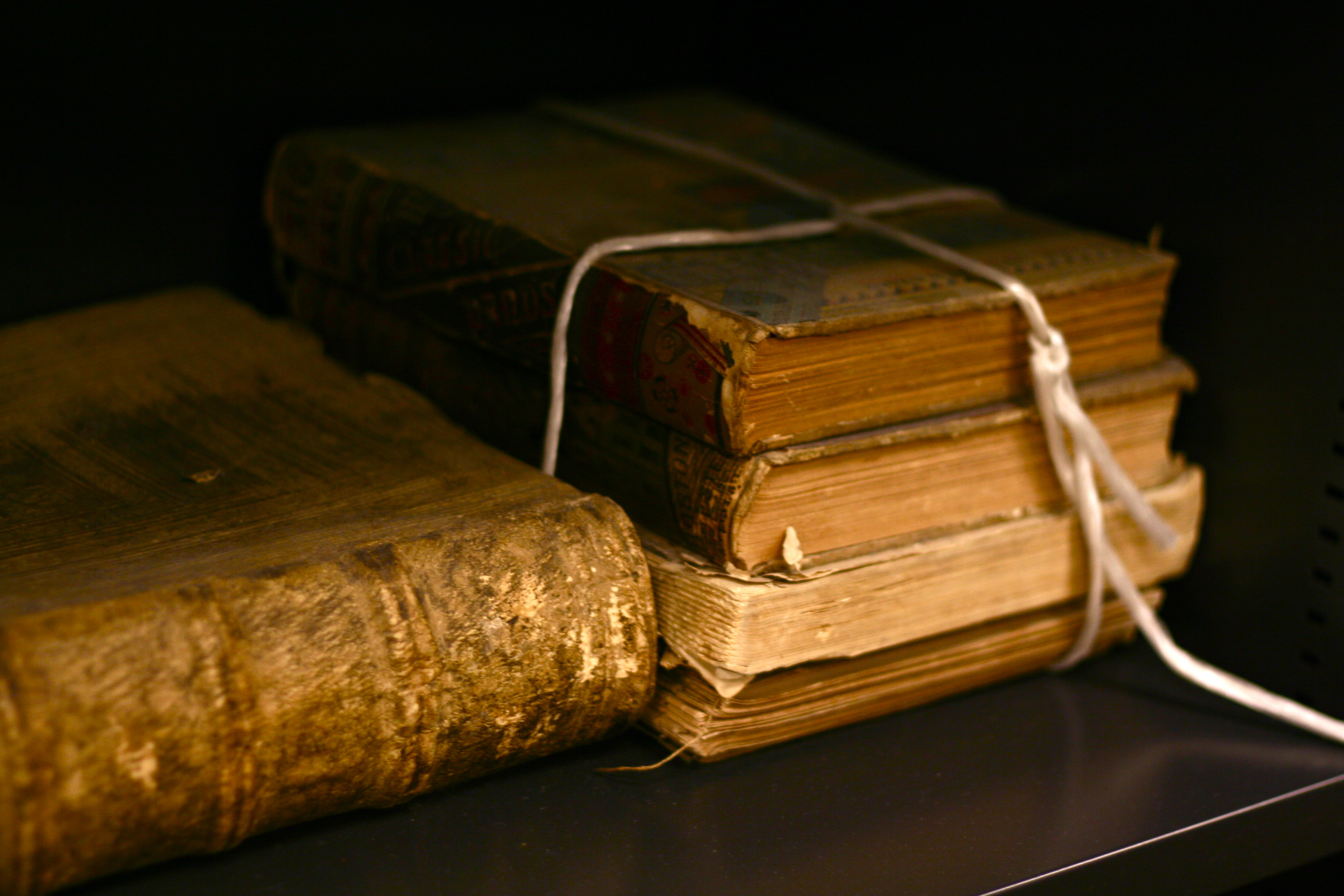 Old books